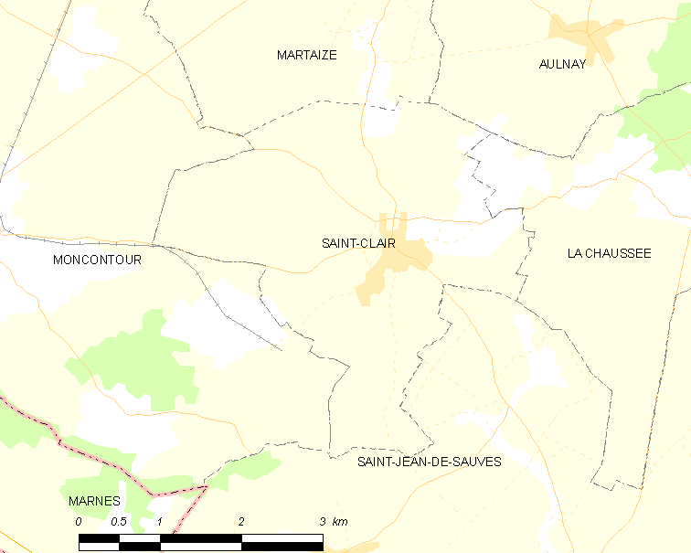 Map of French municipality Saint-Clair